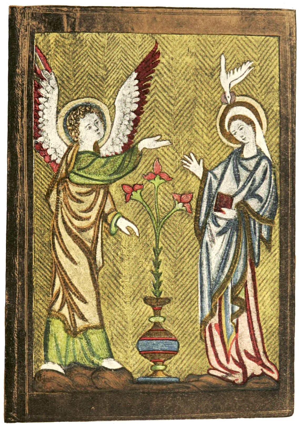 Felbrigge Psalter - Embroidered bookbinding. "The earliest example of an embroidered book in existence is, I believe, the manuscript English Psalter written in the thirteenth century, which afterwards belonged to Anne, daughter of Sir Simon de Felbrigge, K. G., standard-bearer to Richard ii. Anne de Felbrigge was a nun in the convent of Minoresses at Bruisyard in Suffolk, during the latter half of the fourteenth century, and it is quite likely that she herself worked the cover—such work having probably been largely done in monasteries and convents during the middle ages. "On the upper side is a very charming design of the Annunciation, and, on the under, another of the Crucifixion, each measuring 7¾ by 5¾ inches. In both cases the ground is worked with fine gold threads 'couched' in a zigzag pattern, the rest of the work being very finely executed in split-stitch by the use of which apparently continuous lines can be made, each successive stitch beginning a little within that immediately preceding it—the effect in some places being that of a very fine chain-stitch. The lines of this work do not in any way follow the meshes of the linen or canvas, as is mostly the case with book-work upon such material, but they curve freely according to the lines and folds of the design."